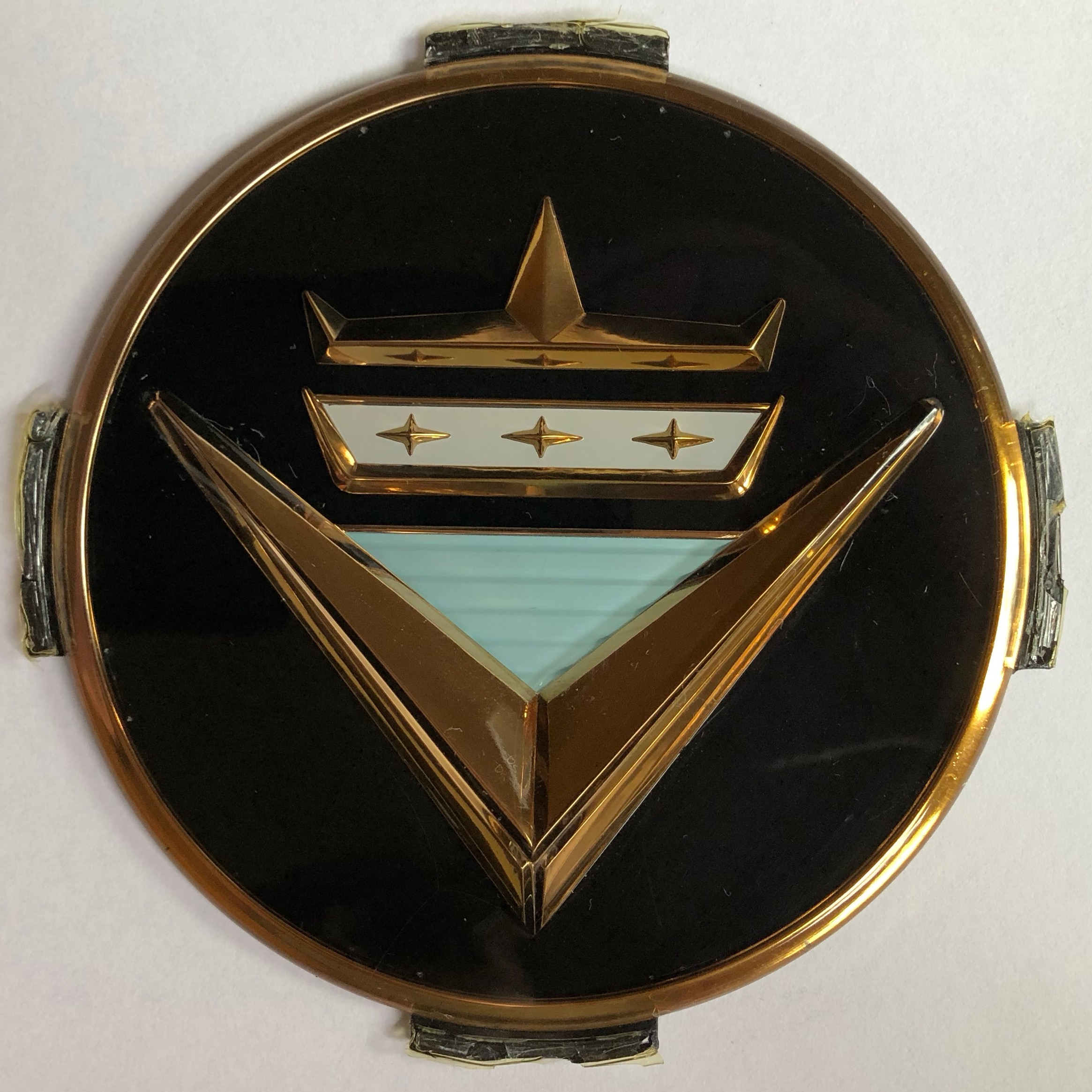 1957 Chevy El Morocco Center Cap Emblem